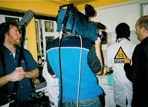 Photo of crew and presenters during recording of 3rd series of Brainiac.